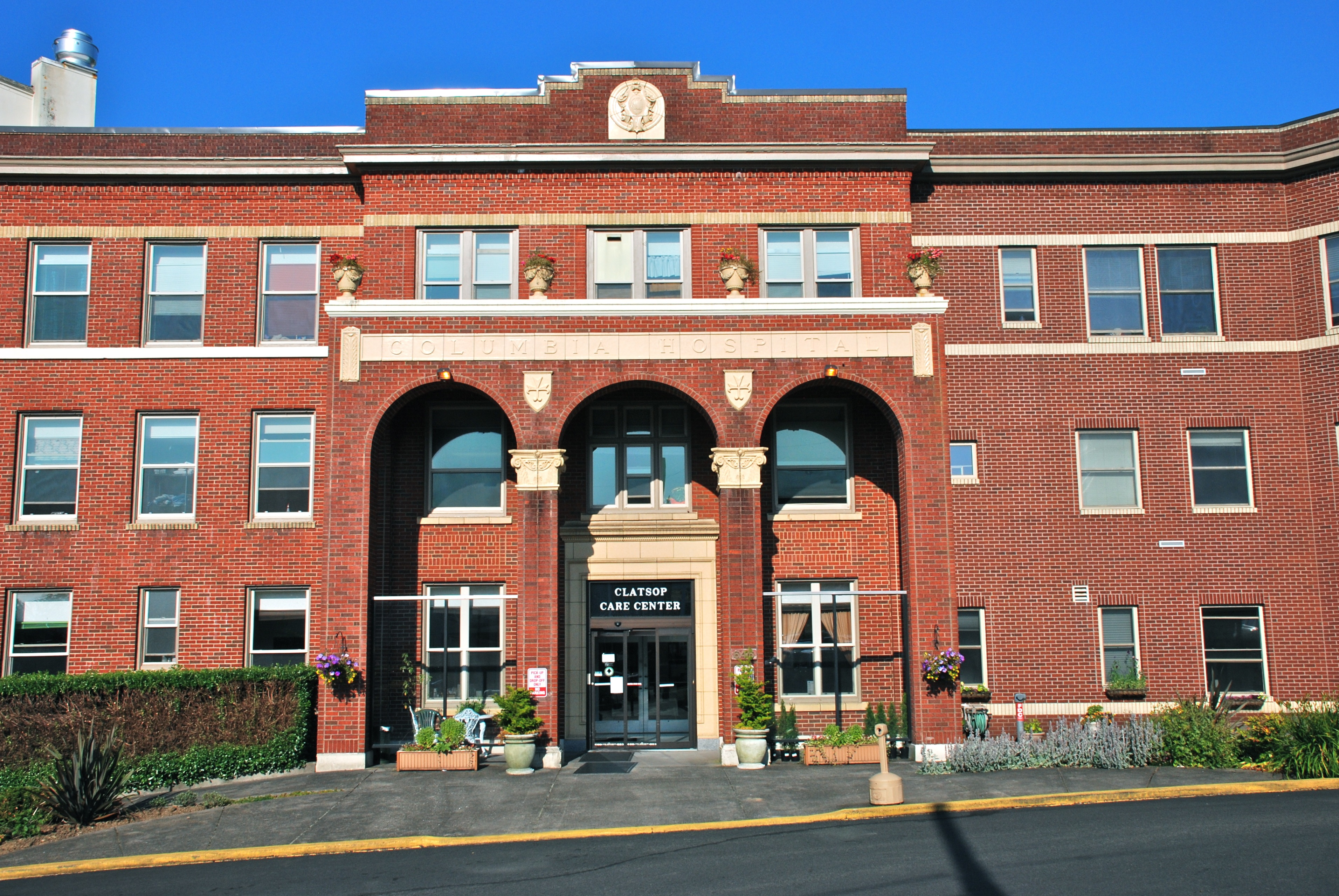 The former Columbia Hospital (now in use as the Clatsop Care Center), at 646 16th Street in Astoria, Oregon, is a contributing resource in the Shively-McClure Historic District, listed on the U.S. National Register of Historic Places. It was designed by John E. Wicks and built in 1926–27.